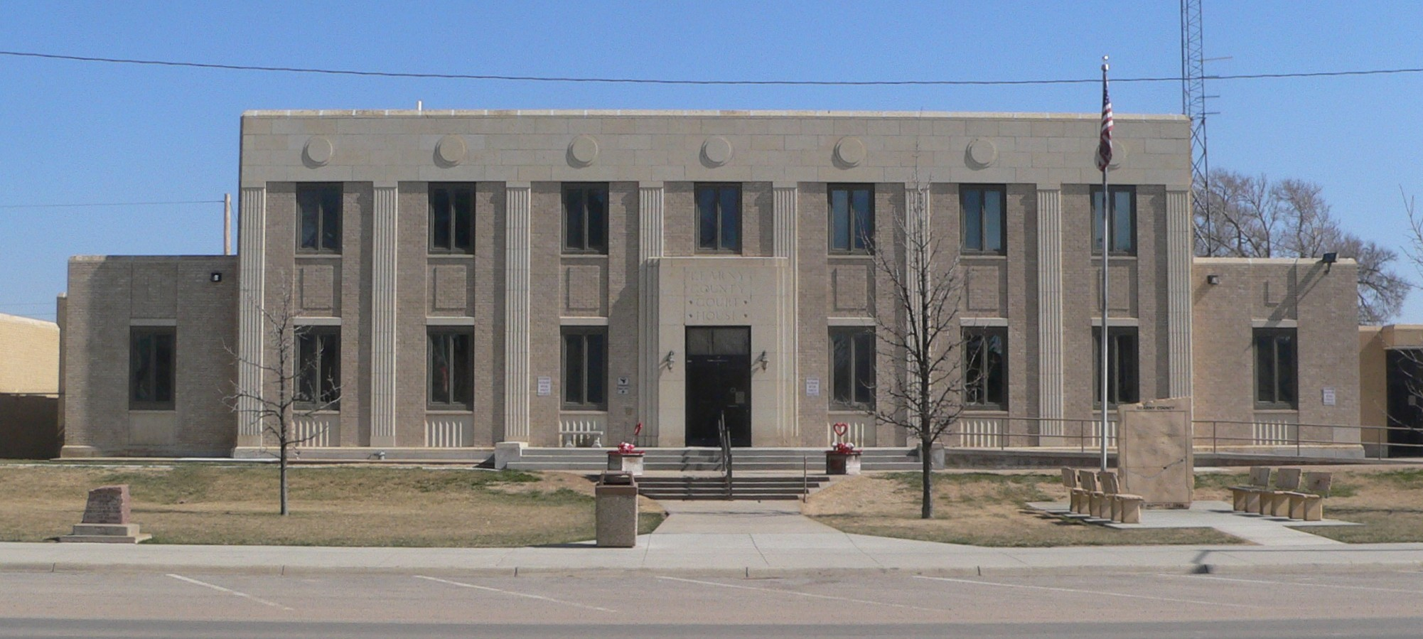 Kearny County courthouse in Lakin, Kansas; seen from the southeast.